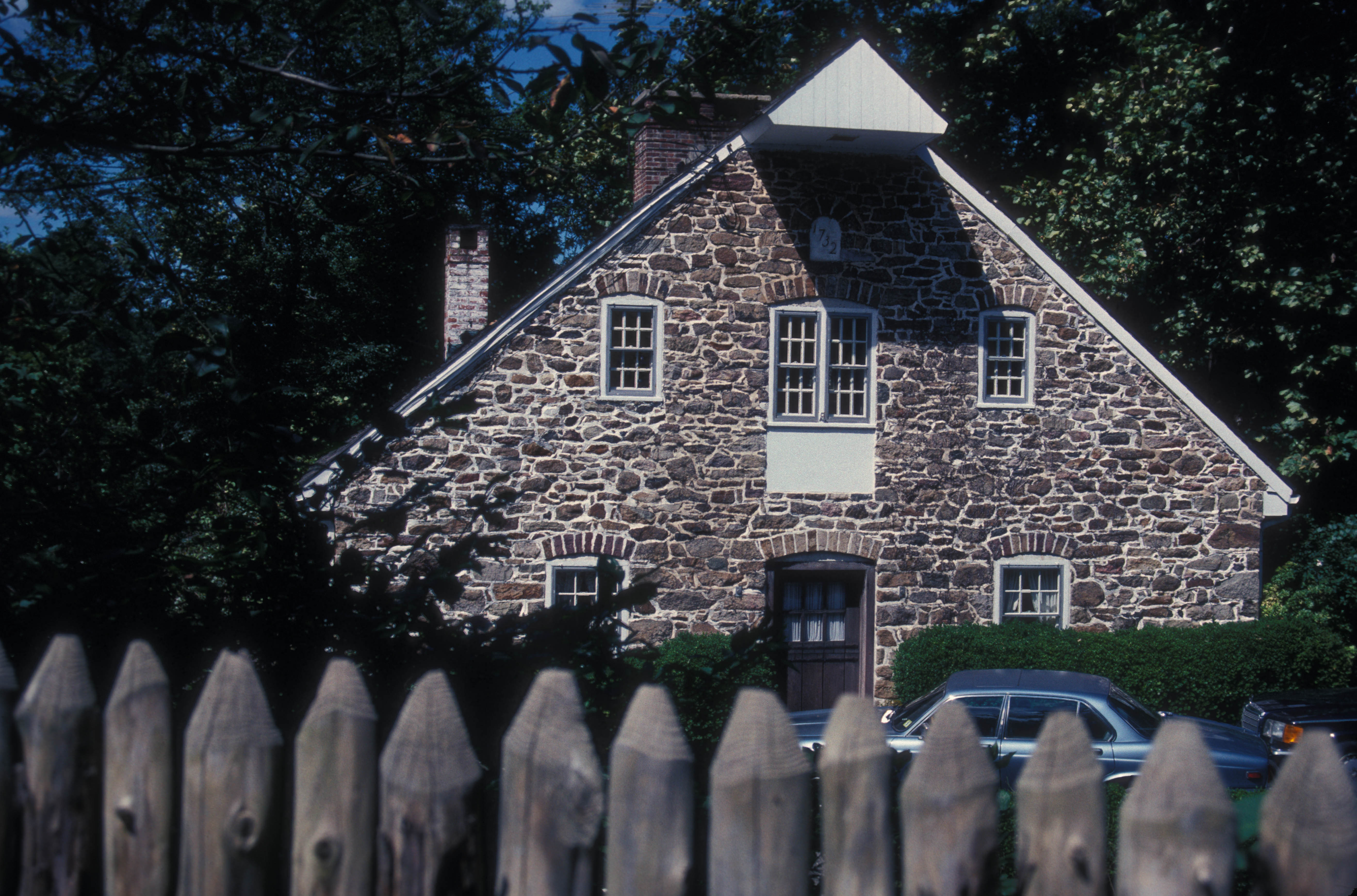 OLD GRIST MILL WHICH SUPPLIED GRIST TO WASHINGTON’S TROOPS; CIRCA 1742; ALSO IN THE DISTRICT ARE JOHN RALSTON'S MANOR HOUSE AND THE 1892-19412 POST OFFICE